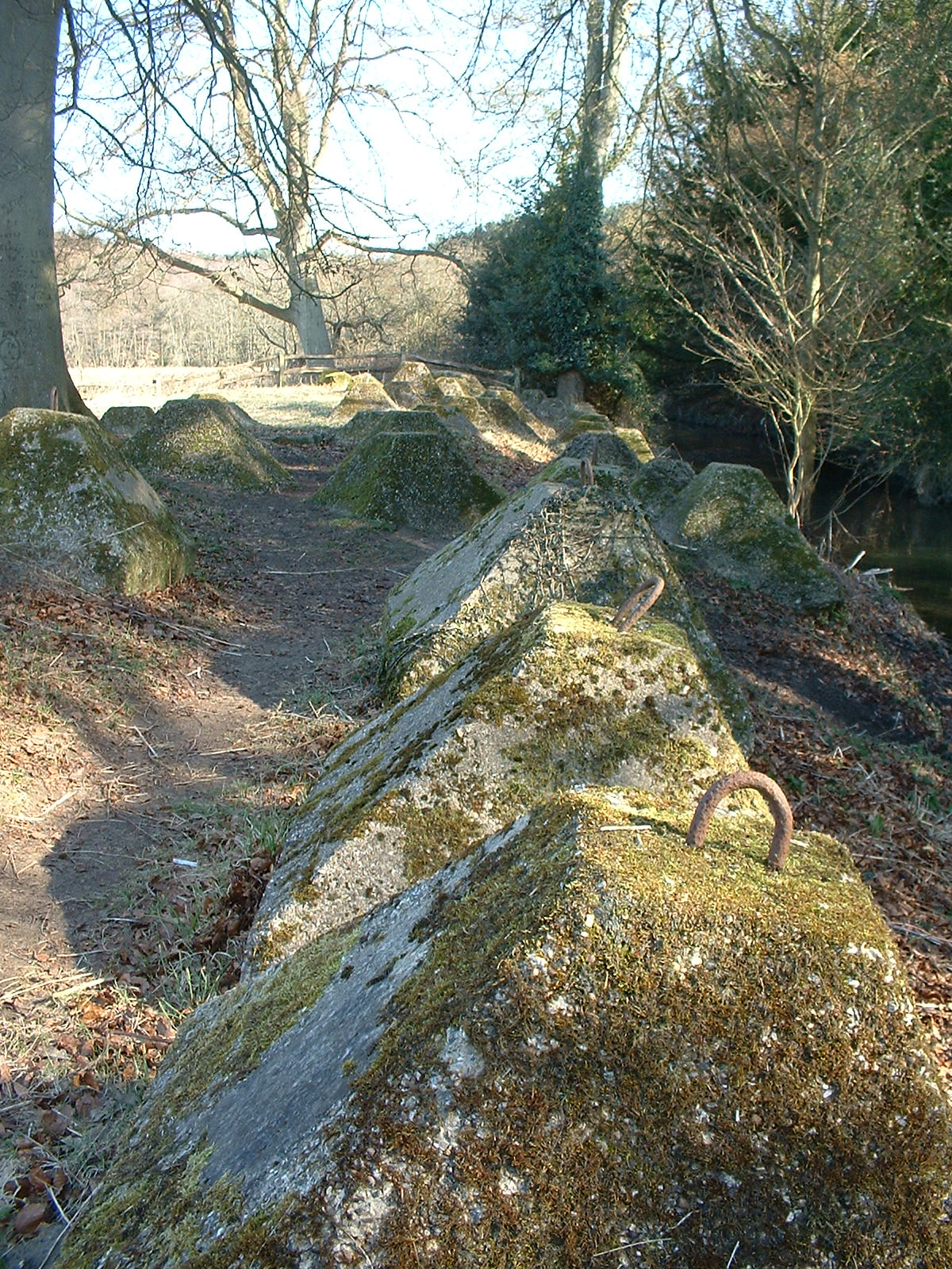 Dragons teeth near to the remains of Waverly Abbey. OS reference SU867452 Photographed on 19-Mar-06.